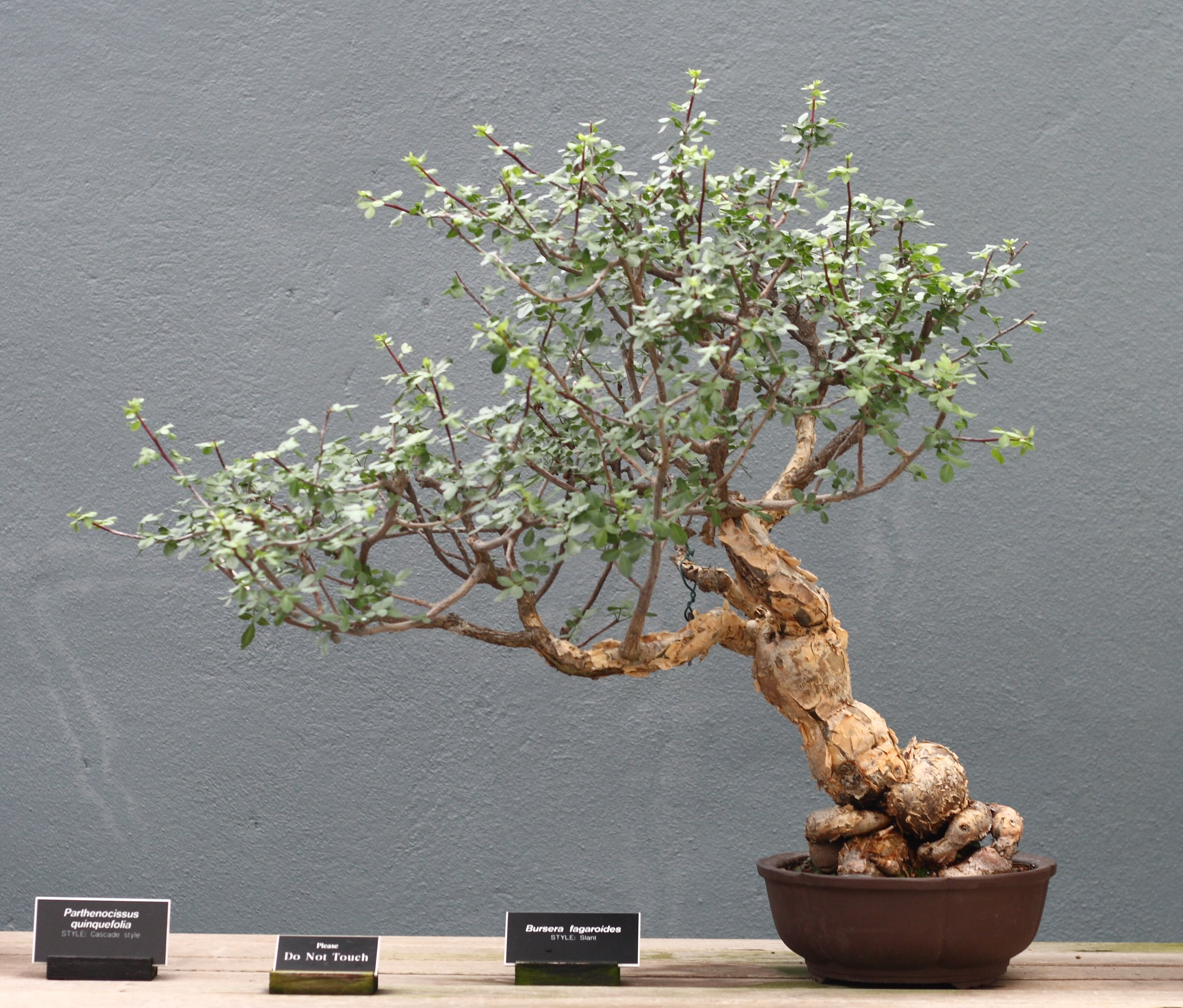 A Bursera fagaroides bonsai in the "slant" style on display at the Brooklyn Botanic Garden.